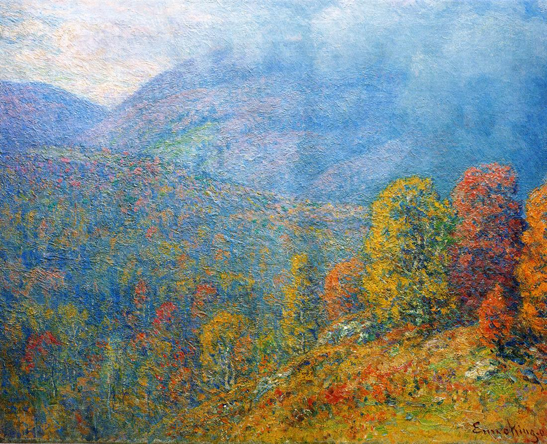 "Mountain Landscape," oil on canvas, by American artist John Joseph Enneking, Bates College Museum of Art.